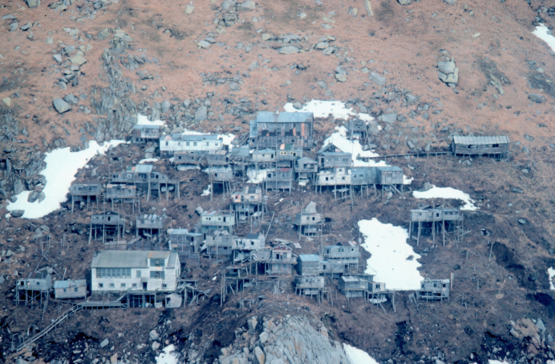 The stilt village of Ukivok - this is now deserted. Located on King Island in the Bering Strait.